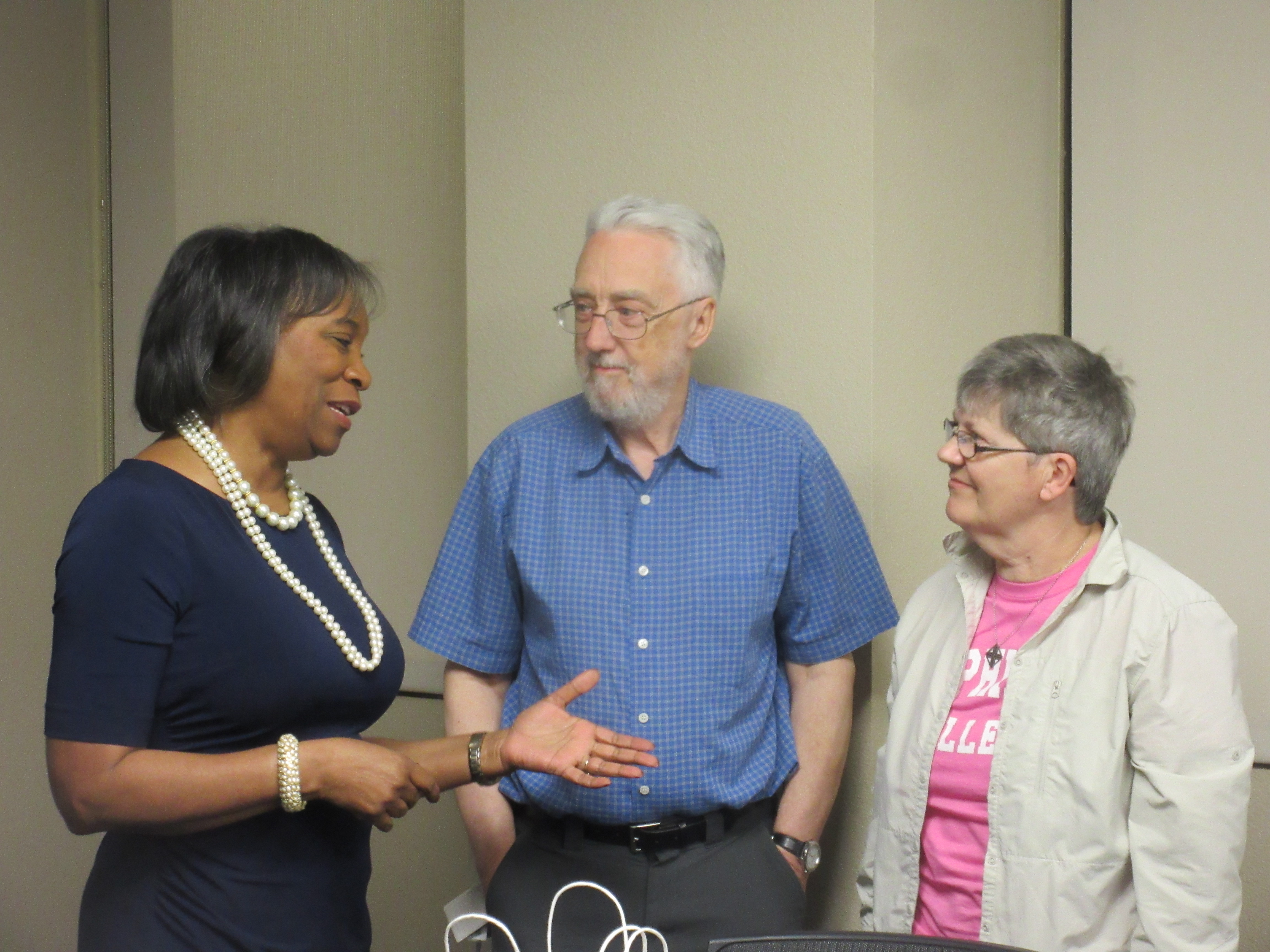 Dr. Adena Loston visits with Richard and Yvonne Naylor, the Fulbright Scholars-in-Residence at St. Philip's College.